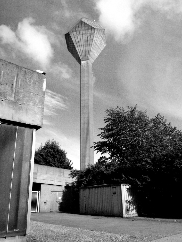 The water tower in University College Dublin